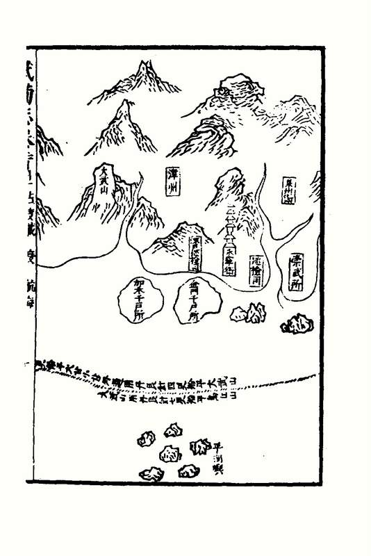 Mao Kun map